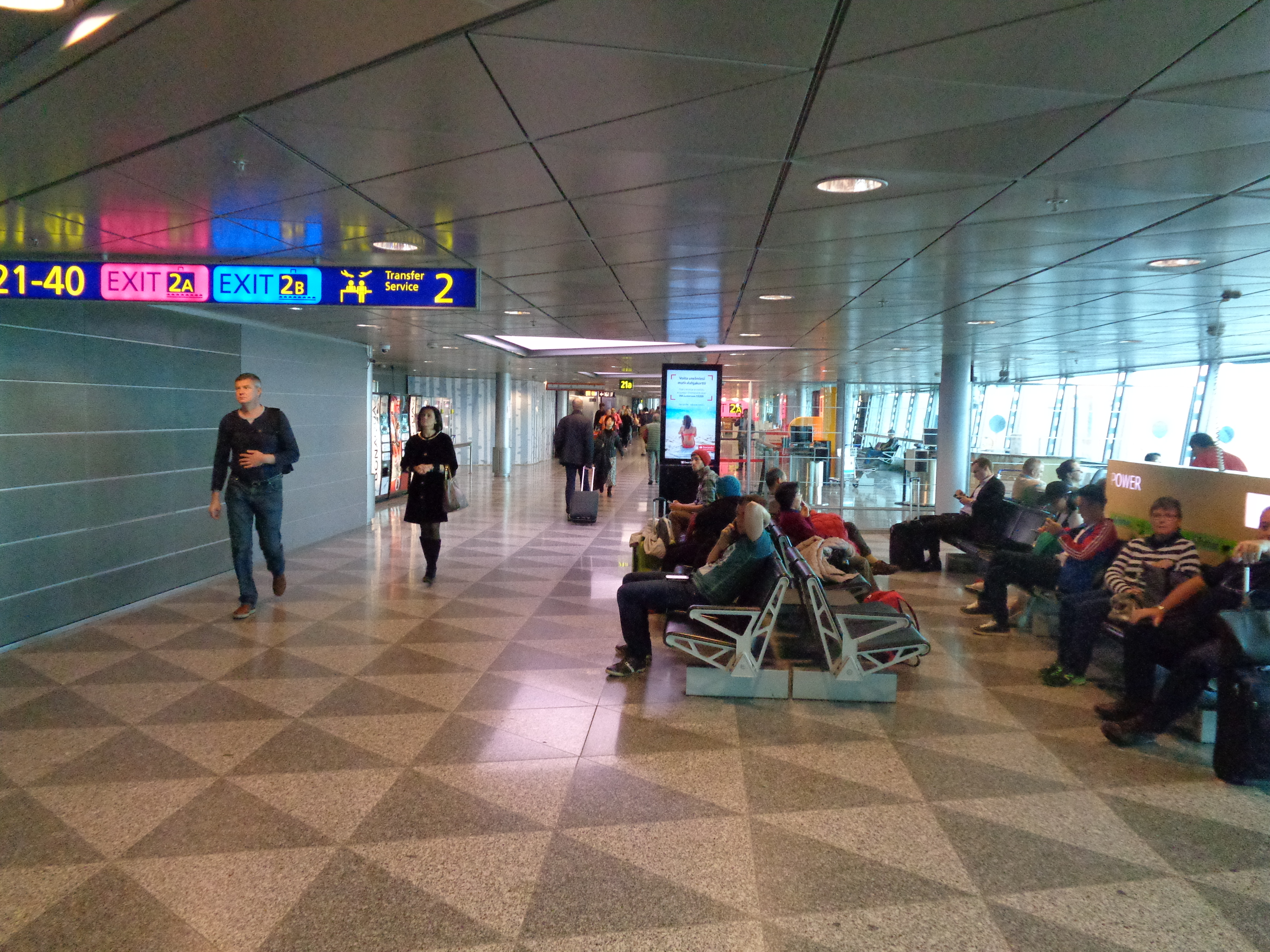 Helsinki Airport terminal 2 interior near gate 20.